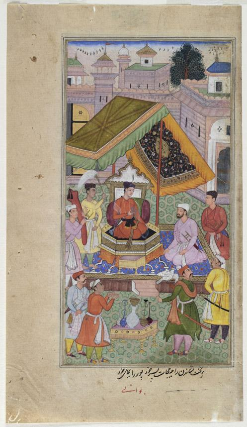 Razmnama or Razmnameh (The Book of War), the 17th century Persian language translation of one of the great Hindu epics of India, the Mahabharata, created for Mughal emperor, Akbar. Ms. Leaf illustration of Prince Puru enthroned by his father Raja Yajati. Inscription in black and red inks on lower border of page "bar takht nishanidani Rajah Jajat pisar-I Khwud Pur-ra bi-ja-yi khud (signed) Bhawani." Colours include light green, olive-green, violet, blue, purplish-red, orange, yellow, black and white and gold etc. Prince seated on backed hexagonal throne on dias under canopy left of centre. 4 attendants to eitherside. Small table with flasks and jars in foreground, stool before throne, architectual background with tree and flights of birds above. Patterned floor, carpet on dias, floral llining on awning. Verso with text